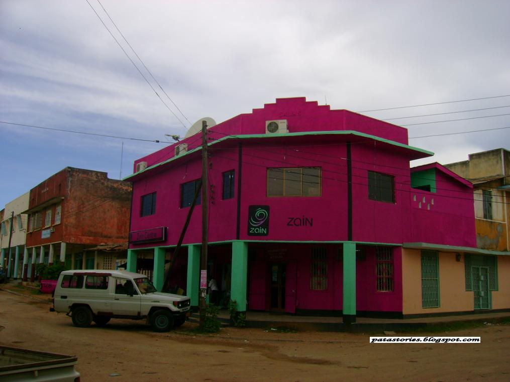 Mtwara town, Tanzania